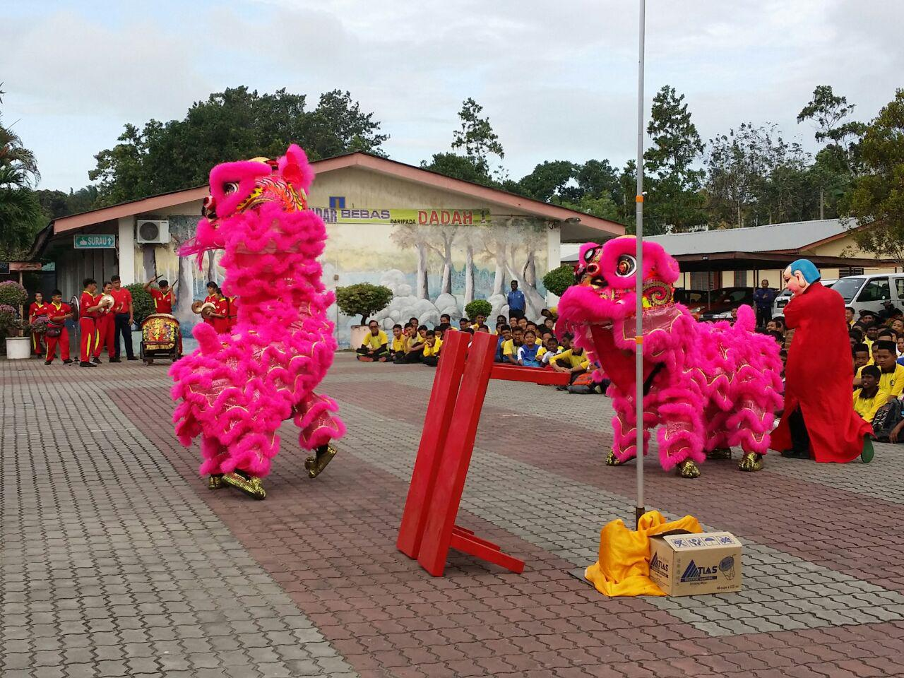 CNY 3